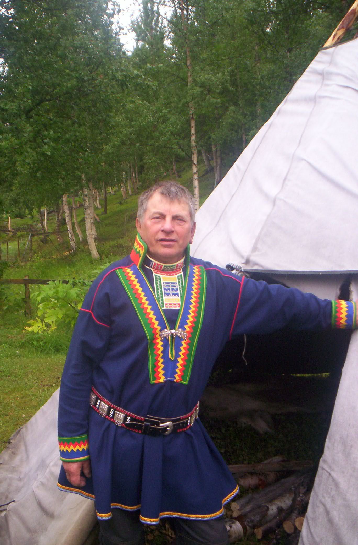 A Pite Saami man in front of a Saami tent, called goahti.